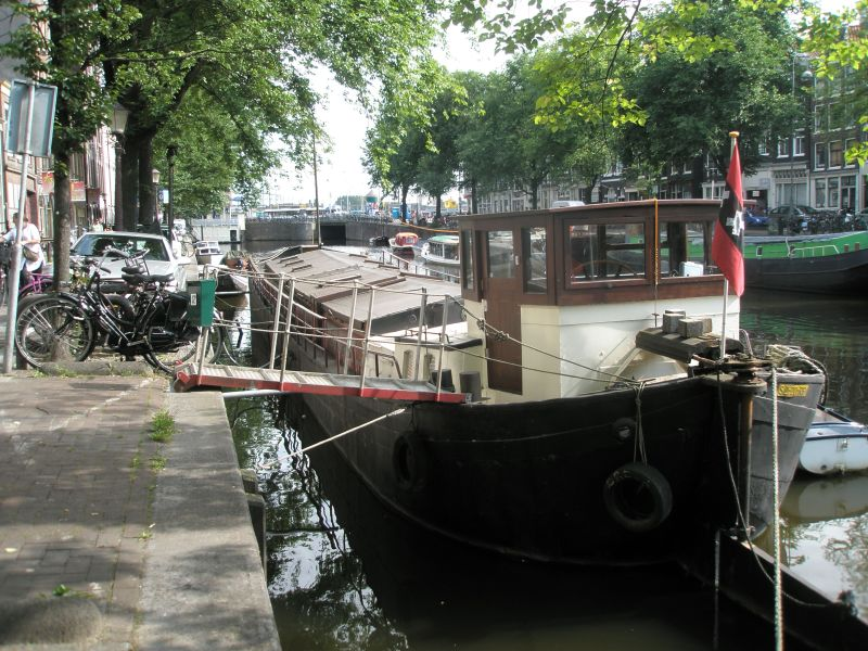 They pick up and deliver everything here. This garbage scow does as the name implies.